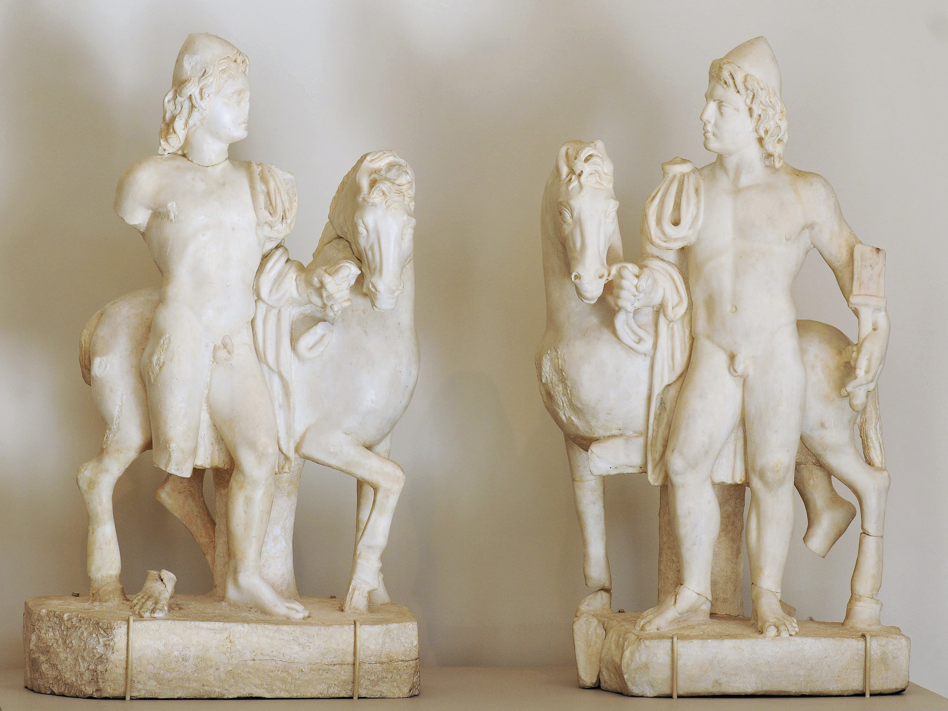 Dioskouroi, pair of statuettes. Roman artwork of the 3rd century AD.